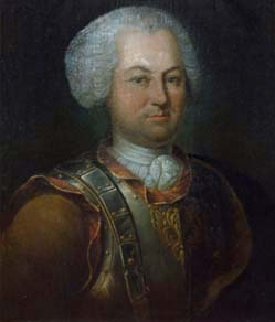 Granville Elliott (1714-1759)